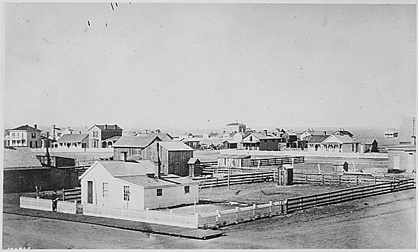 Photograph of Cheyenne, Wyoming in 1876.